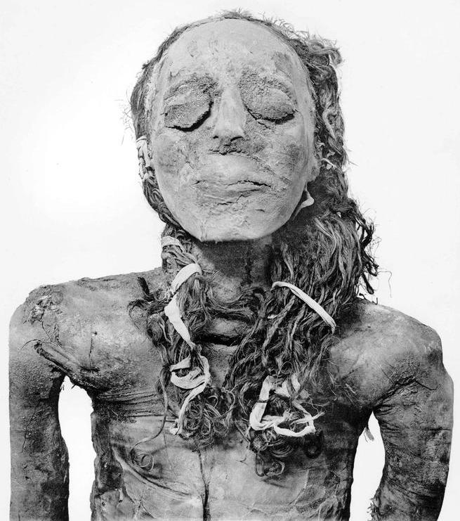 Mummy of Neskhons, Chantress of Amun during the 21st dynasty, found in DB320.